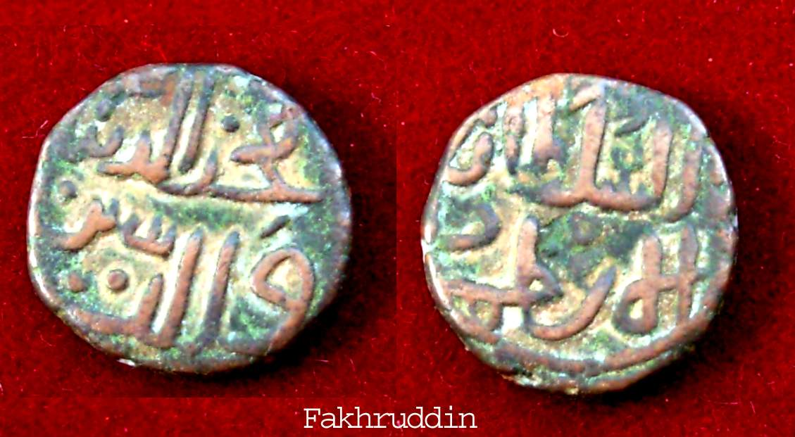 Coin of Fakhr-ud-Din Mubarak Shah, Sultan of Madurai Sultanate, 1358–1368 CE. (image from personal collection)